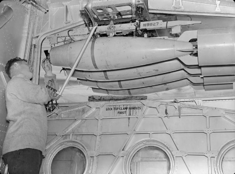 Royal Air Force Coastal Command, 1939-1945. A crew member checks a rack containing four 250-lb AS bombs inside Short Sunderland Mark I, N9027, of No 210 Squadron RAF based at Oban, Argyll. When attacking a target, two mobile bomb racks inside the Sunderland's hull were run out to their release positions underneath the wings of the aircraft